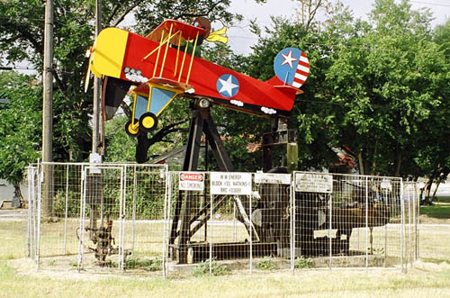 A decorated pump jack in Luling, Texas, United States. (This pump jack was removed.)